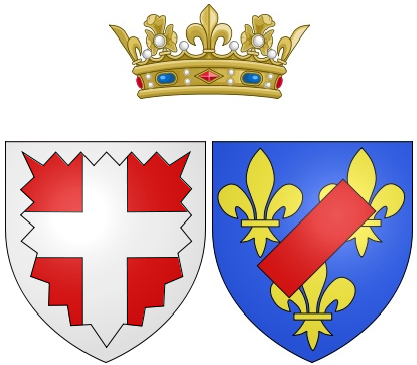 Coat of arms of Élisabeth de Bourbon as Duchess of Nemours